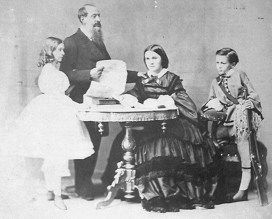 Miguel of Portugal (1802-1866) with his wife Adelaide of Löwenstein-Wertheim-Rosenberg (1831-1909) and their two eldest children Maria das Neves (1852-1941) and Miguel (1853-1927)